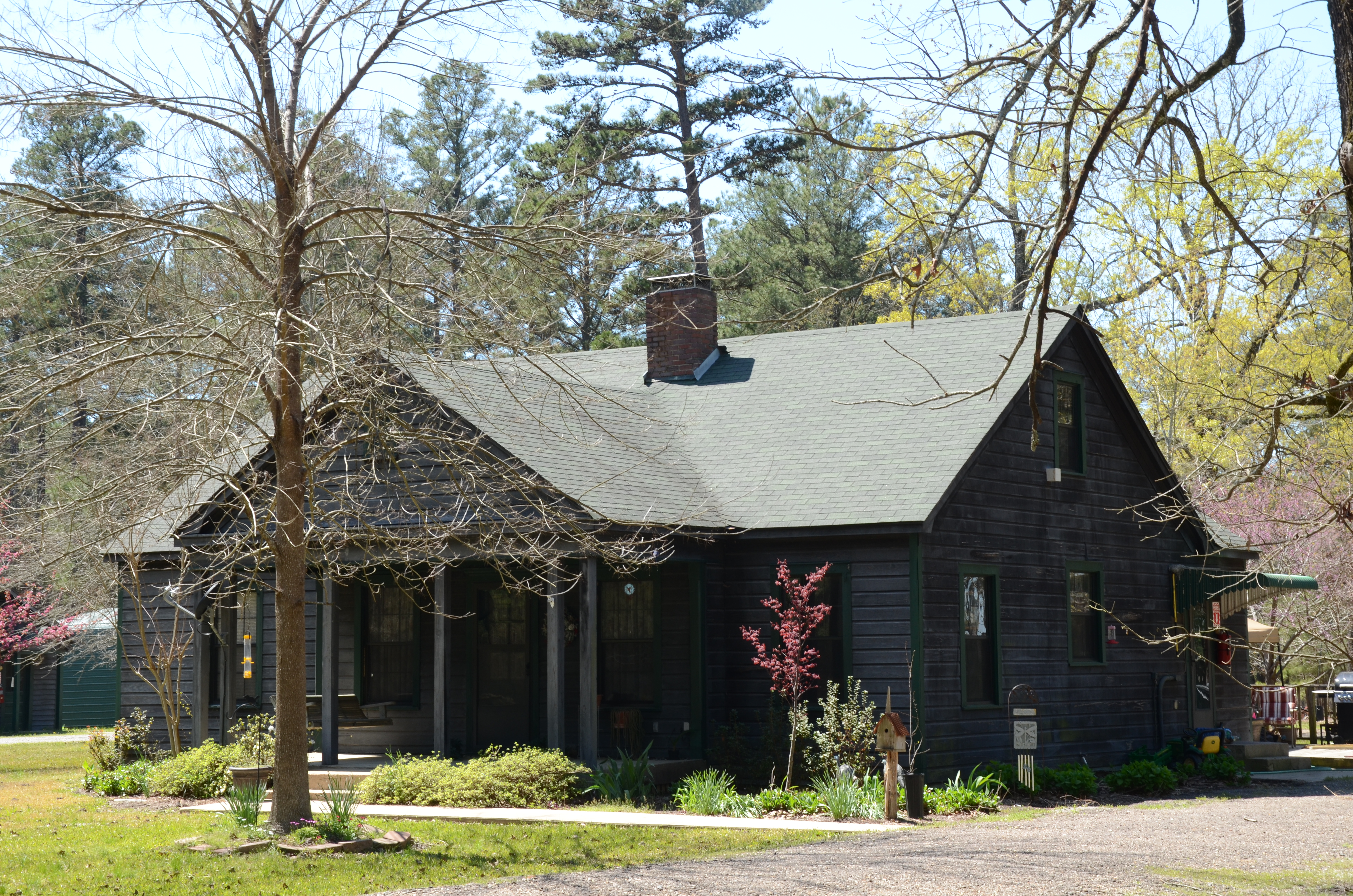 Crossett Experimental Forest Building No. 8